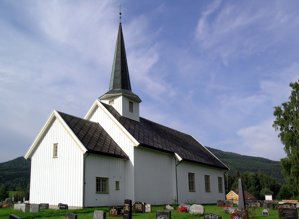 Hurdal church, Akershus, Norway.